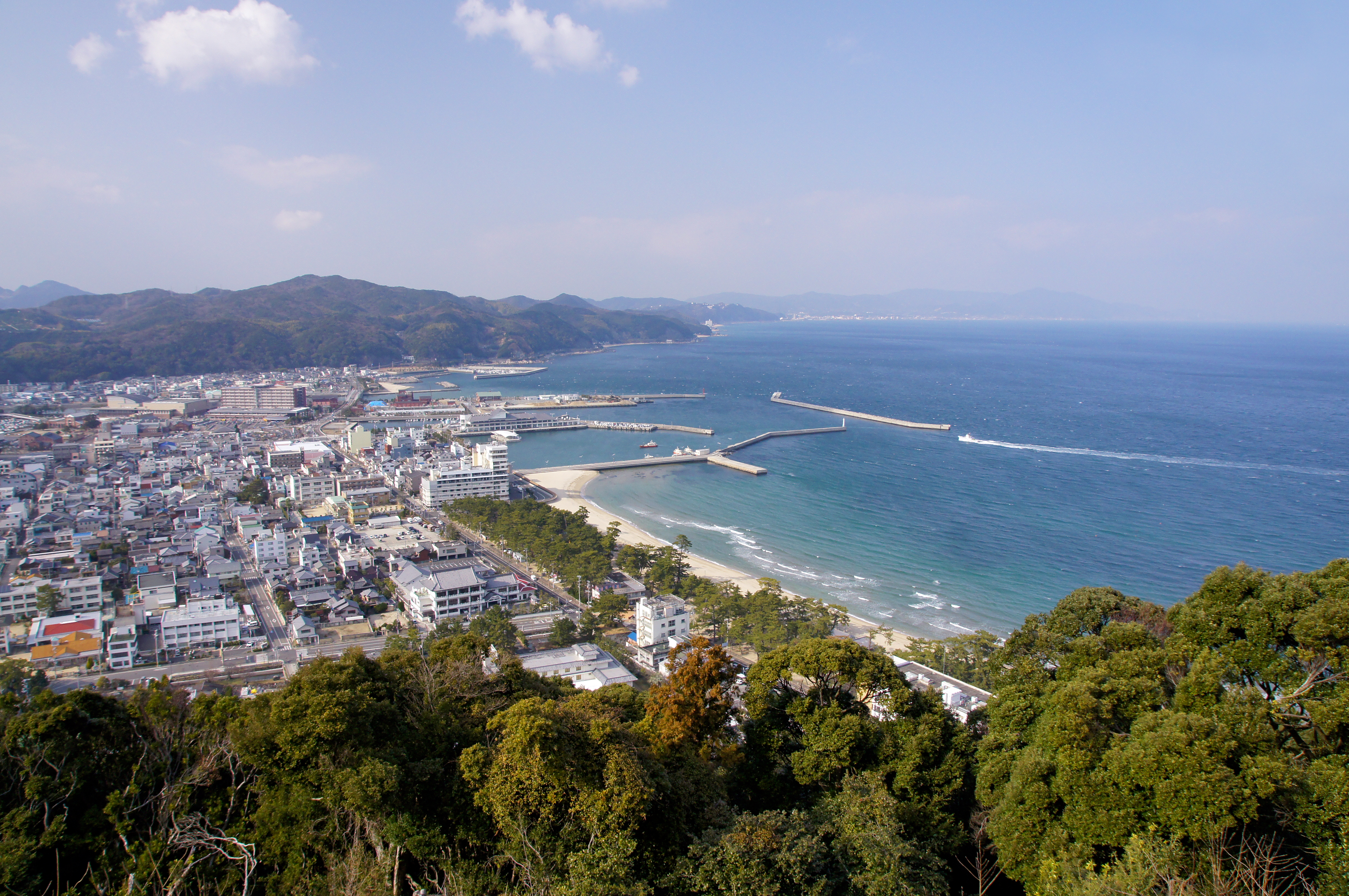 View from Sumoto Castle in Sumoto, Hyogo prefecture, Japan.